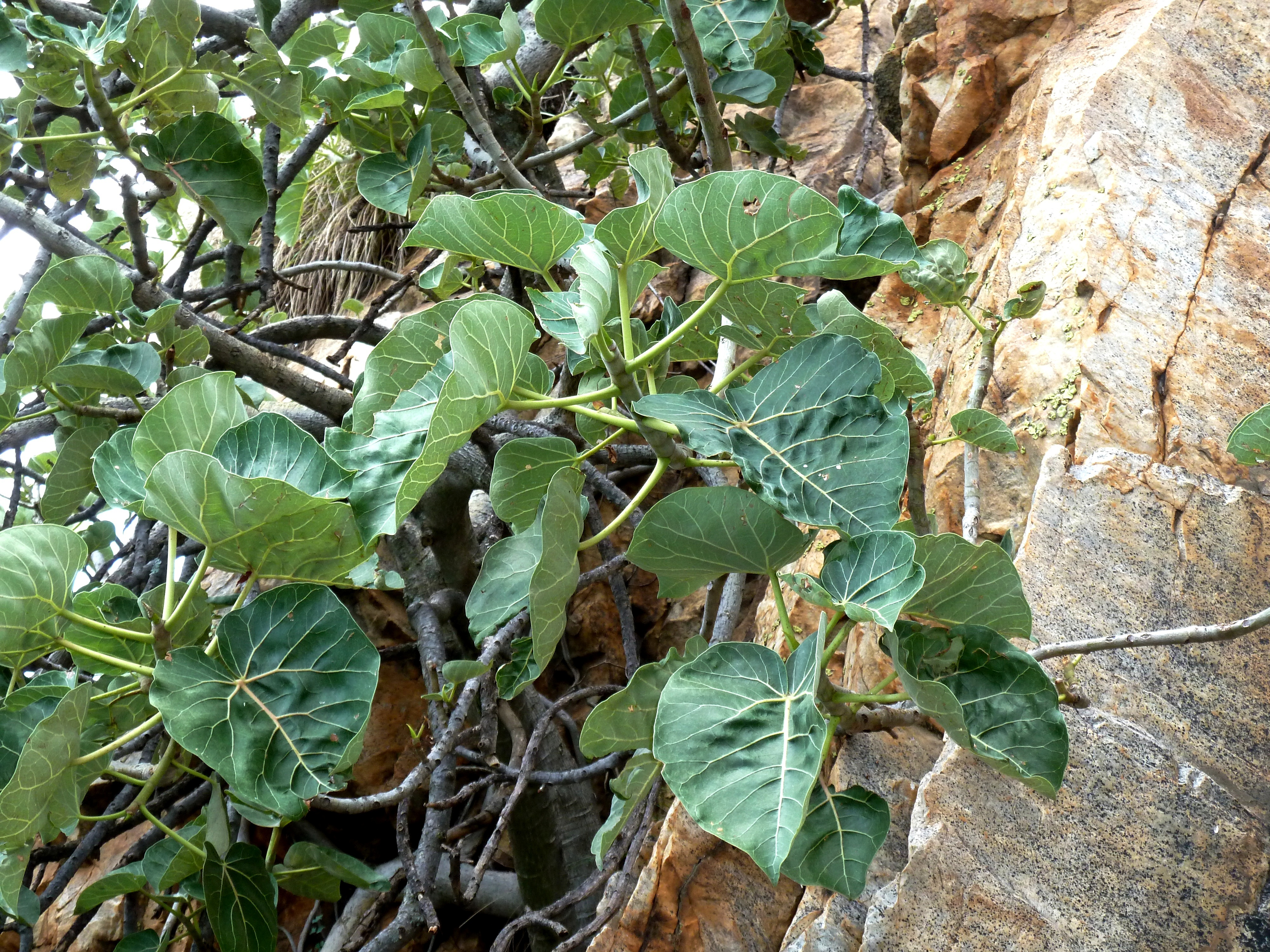 Foliage of a Large-leaved rock fig growing against the Roodekrans in Walter Sisulu Botanical Garden, Roodepoort